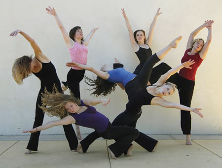 The Ballet East Dance Company works with high schools in the low income neighborhood of East Austin.